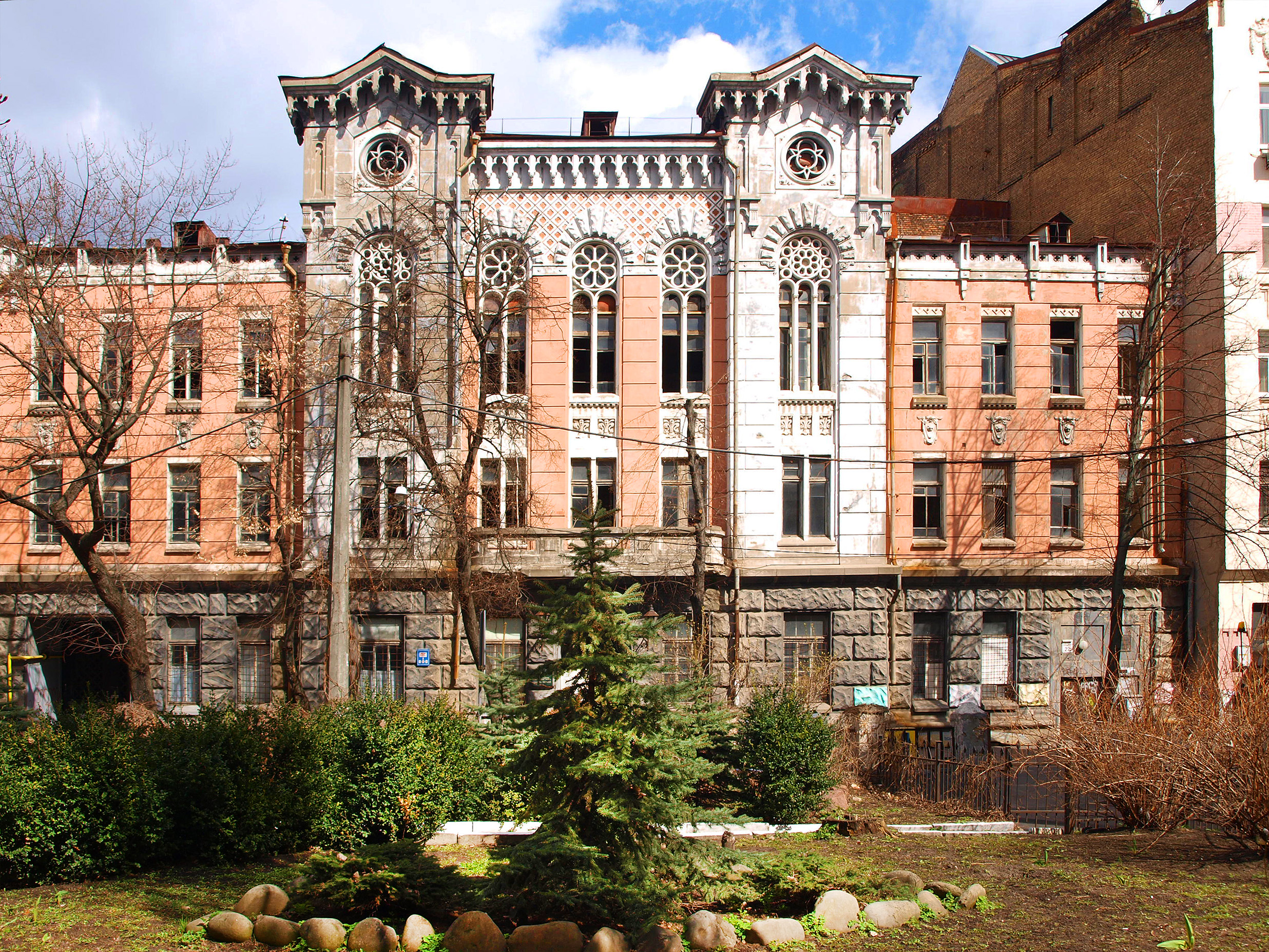 Venetian house in Kyiv (Ukraine)